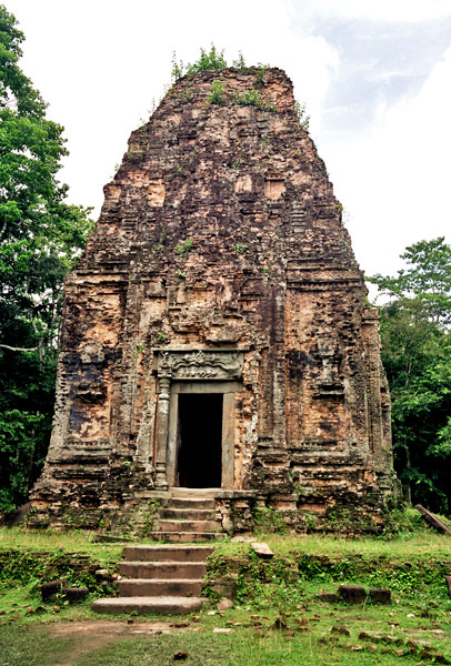 S1 Sanctuary. Sambor Prei Kuk. Cambodia